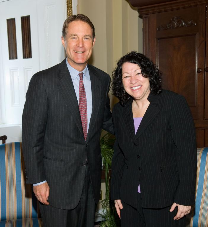 Senator Evan Bayh (D-IN) meeting with Supreme Court nominee Sonia Sotomayor.